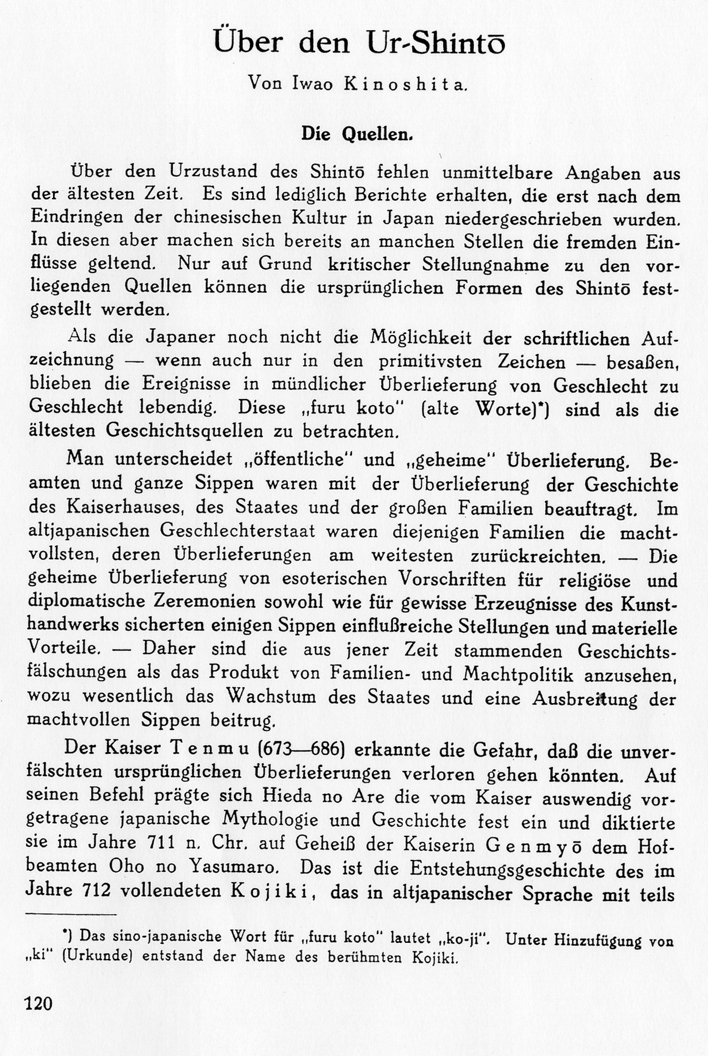 page from Iwao Kinoshita's essay about the roots of Shinto. Yamato, 1929